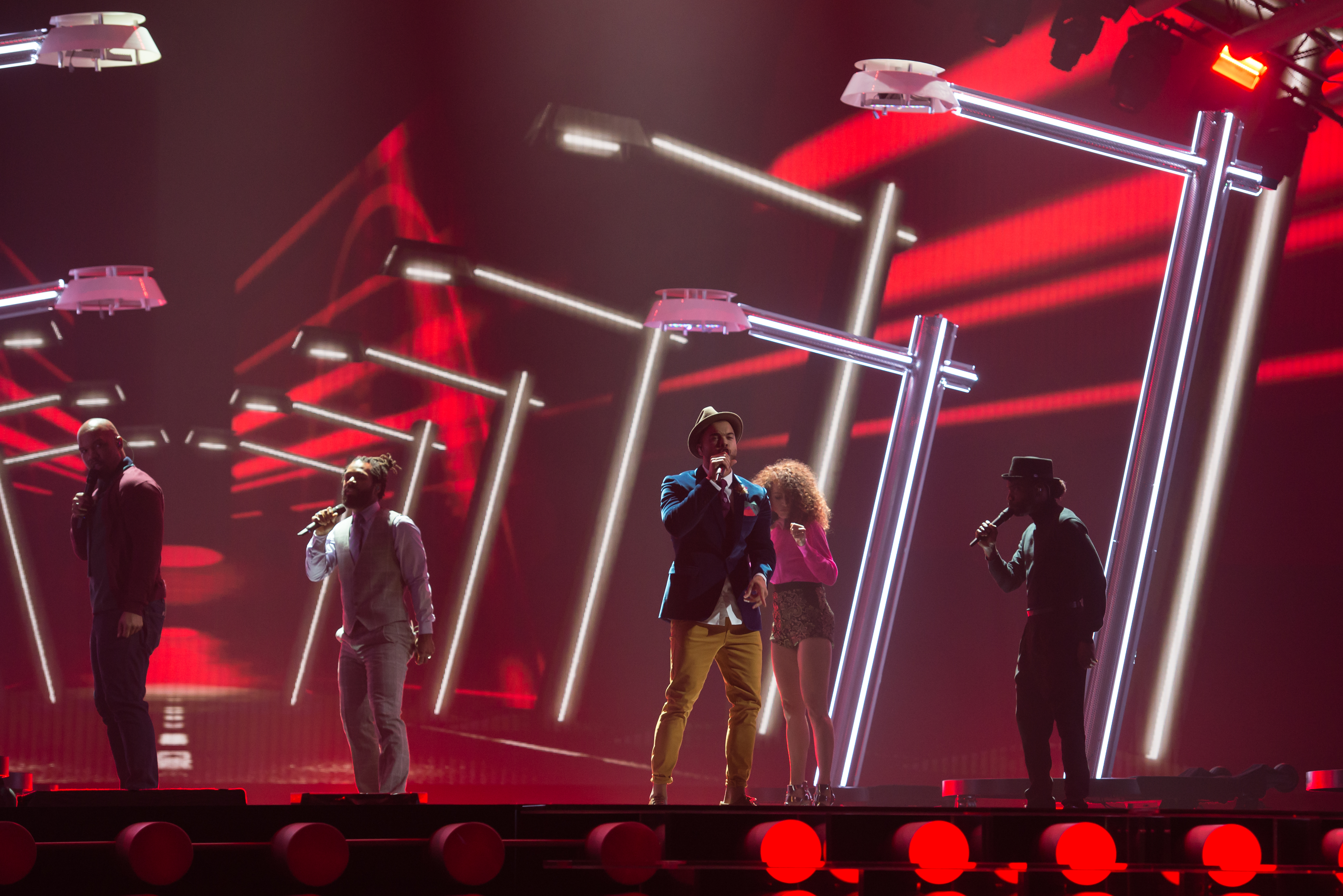 Eurovision Song Contest Vienna 2015: Guy Sebastian